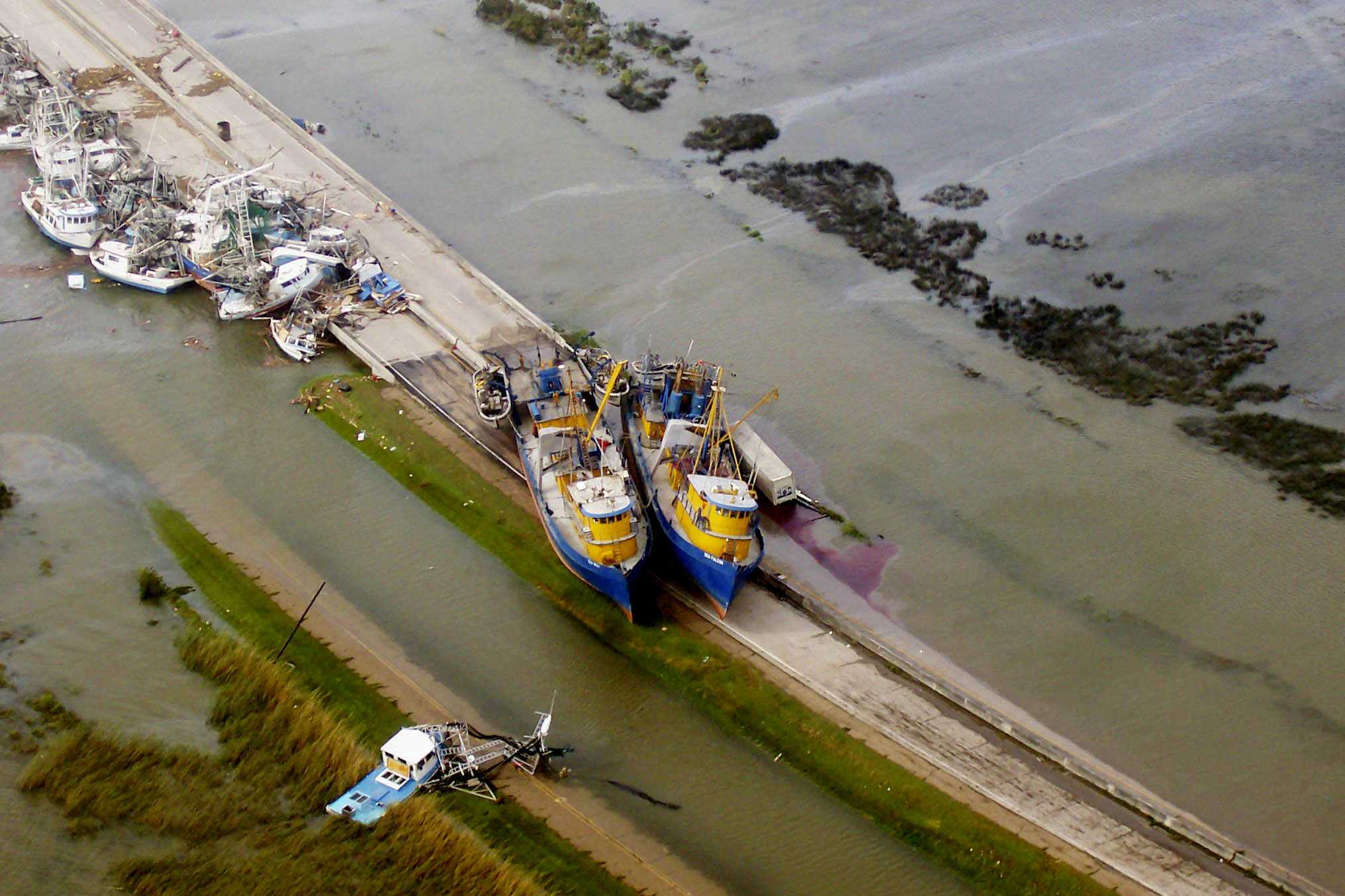 Aftermath of Hurricane Katrina 2005: Situation in South Plaquemines Parish, Louisiana near Empire, Buras and Boothville, United States of America (2005-08-29, 7:10 EDT).